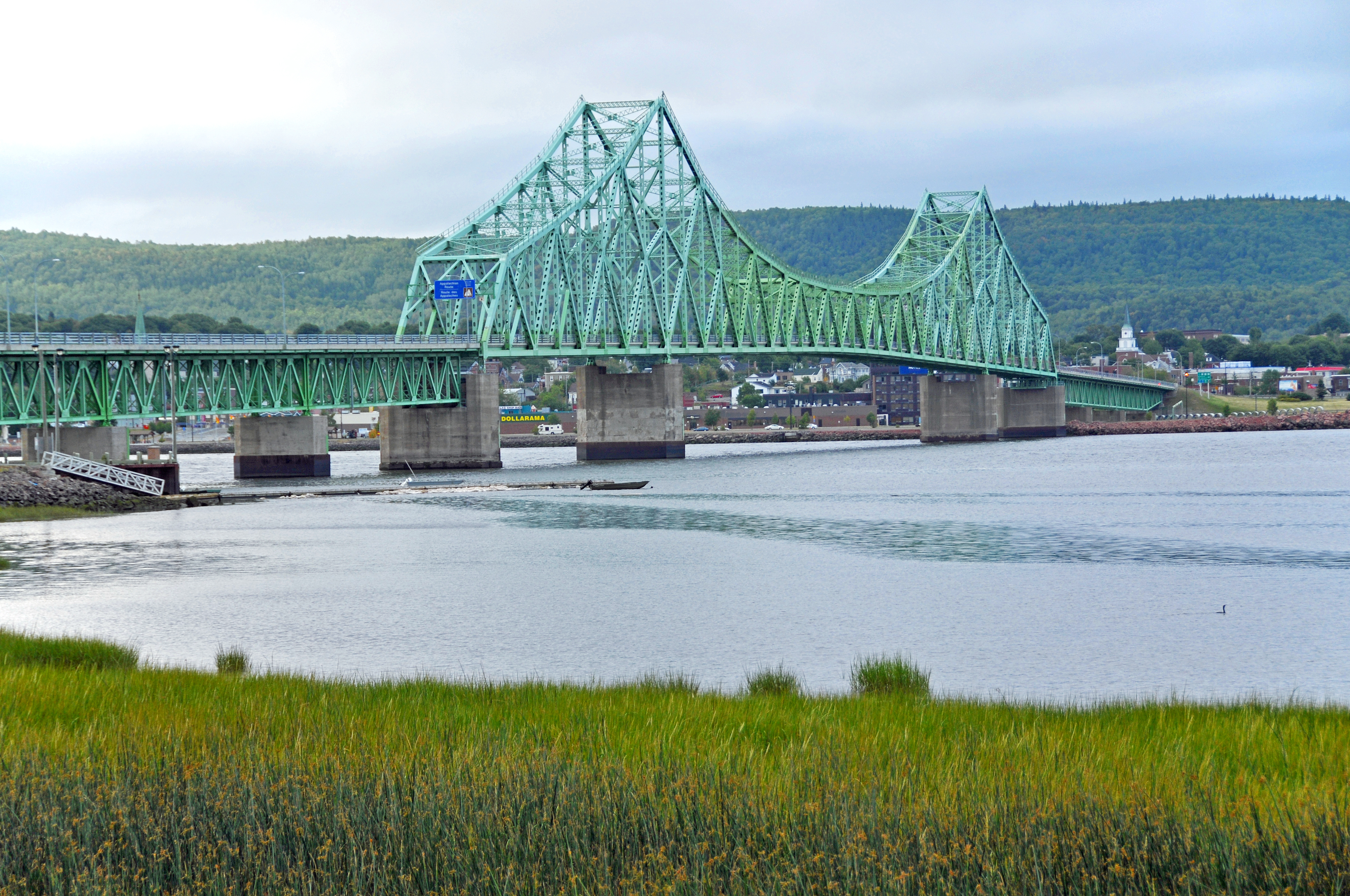 The J. C. Van Horne Bridge is a Canadian steel through truss/steel deck truss bridge crossing the Restigouche River between Campbellton, New Brunswick and Pointe-à-la-Croix, Quebec. Built between June 1958 and October 1961, the bridge was opened to traffic on October 15, 1961. As an interprovincial crossing, the bridge was constructed under a three-party agreement between the governments of Canada, New Brunswick and Quebec. Measuring 805 m (2641.07 ft) in total length, the bridge consists of four deck-truss approach-spans joined in the middle with a cantilever-through-truss structure. The middle structure is composed of two anchor spans and one clear span over the navigational channel measuring 380 m (1246.71 ft). It carries 2 traffic lanes and 2 sidewalks.